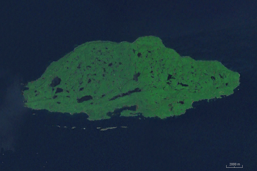 View of Michipicoten Island in Ontario, from World Wind.